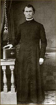 Father Patrick Manogue, priest and first Bishop of Diocese of Sacramento.